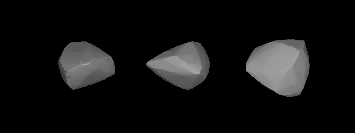 A three-dimensional model of 994 Otthild that was computed using light curve inversion techniques.